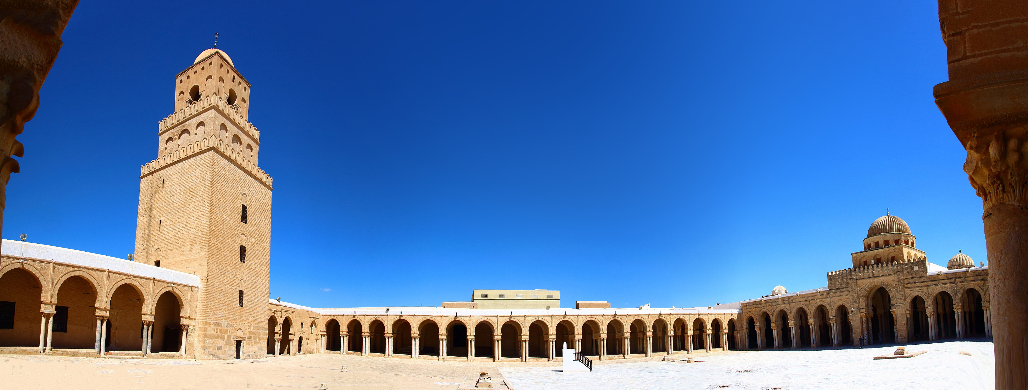 Panorama of the courtyard of the Great Mosque of Kairouan, in Tunisia. This huge mosque, also called Mosque of Uqba, was founded in 670 A.D. It dates, in its present form, from the 9th century (under the Aghlabid dynasty). The Great Mosque of Kairouan is the oldest mosque in the Muslim West.